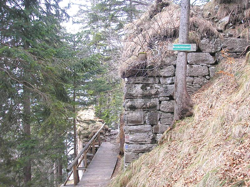 Hohenwaldeck castle (Schliersee-Fischhausen, Landkreis Miesbach, Upper Bavaria, Germany). The southern part of the keep